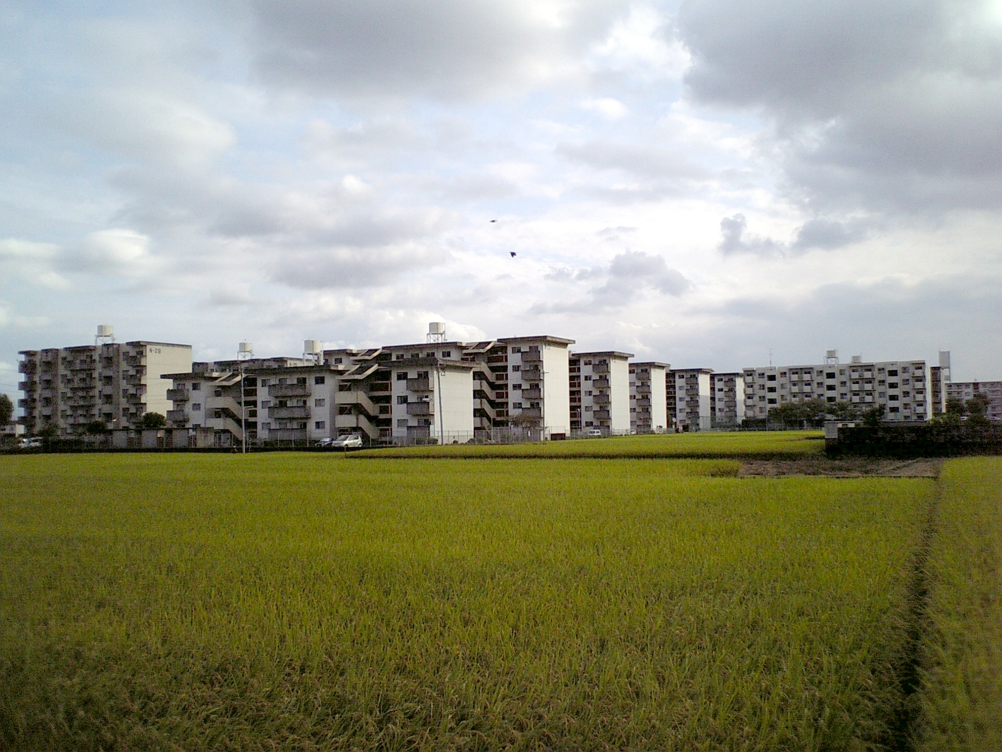 nishigasuga danchi north.